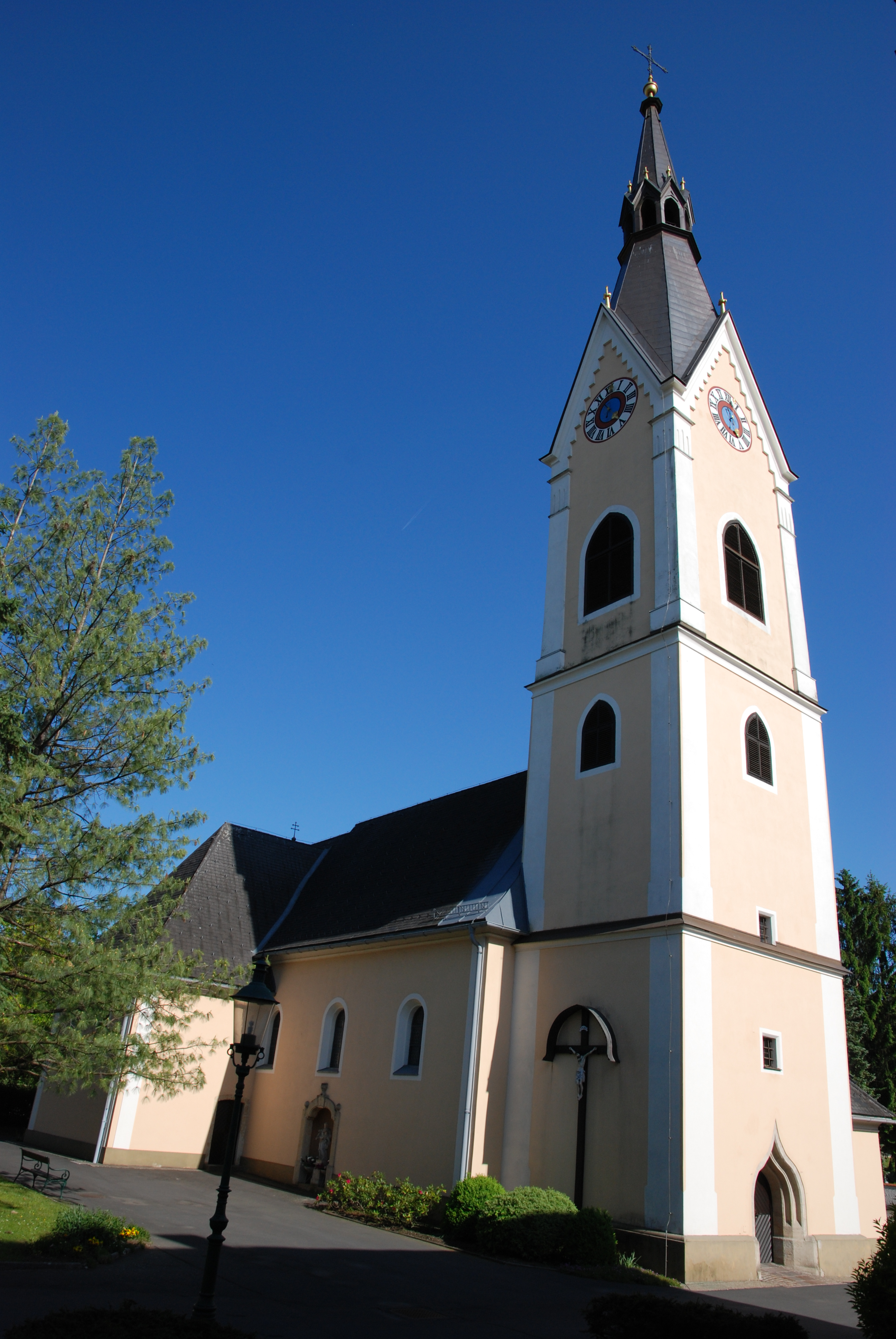 Pfarrkirche Paldau